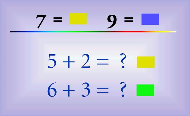 Reaction times for answers that are congruent with a synesthete’s automatic colors are faster than those whose answers are incongruent. Cytowic, Richard E; Eagleman, David M. Wednesday is Indigo Blue: Discovering the Brain of Synesthesia (with an afterword by Dmitri Nabokov). — Cambridge: MIT Press, 2009. — ISBN 0-262-01279-0.